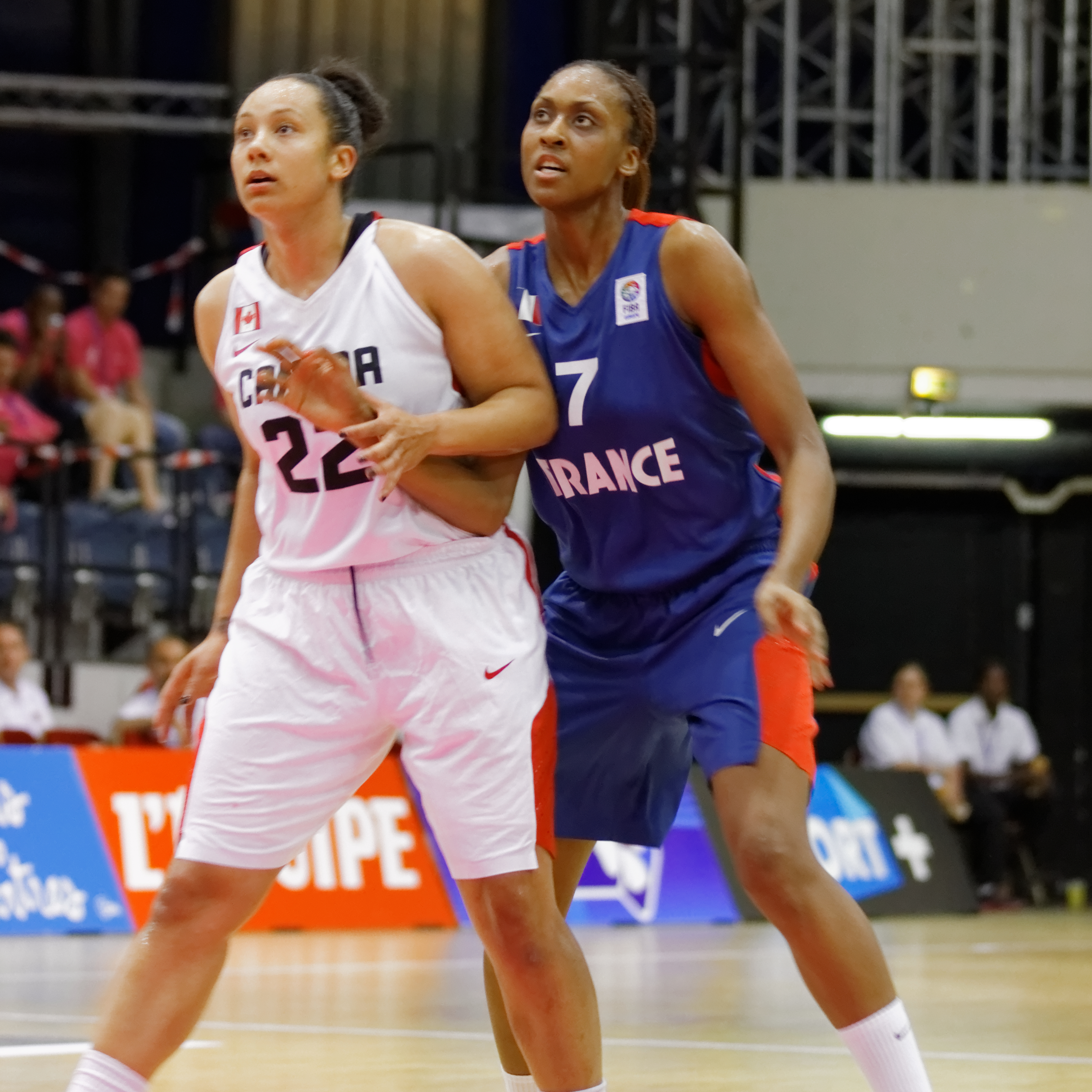 EuroEssonne, France - Canada, 7 June 2013.